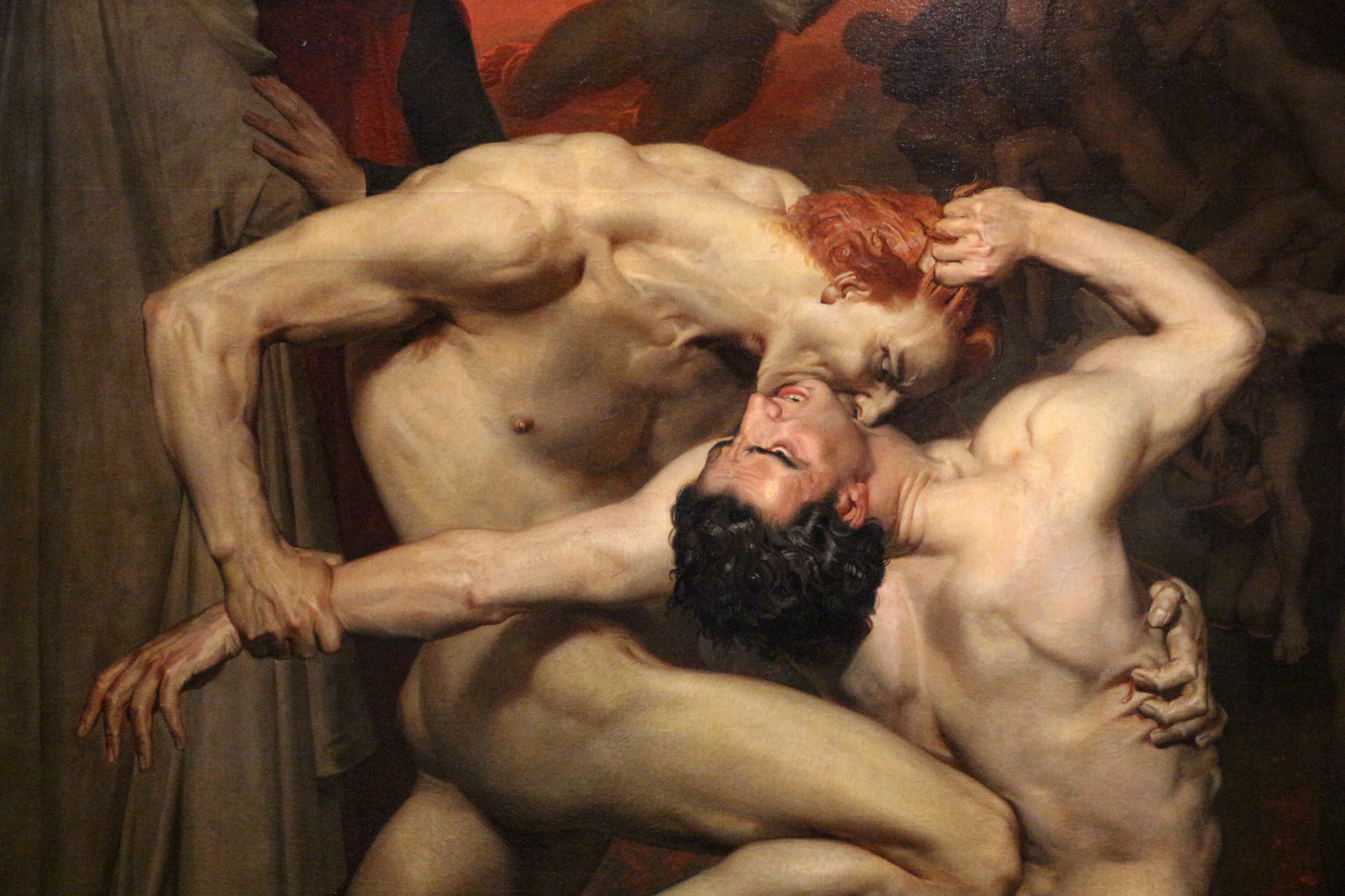 Paintings in Musée d'Orsay